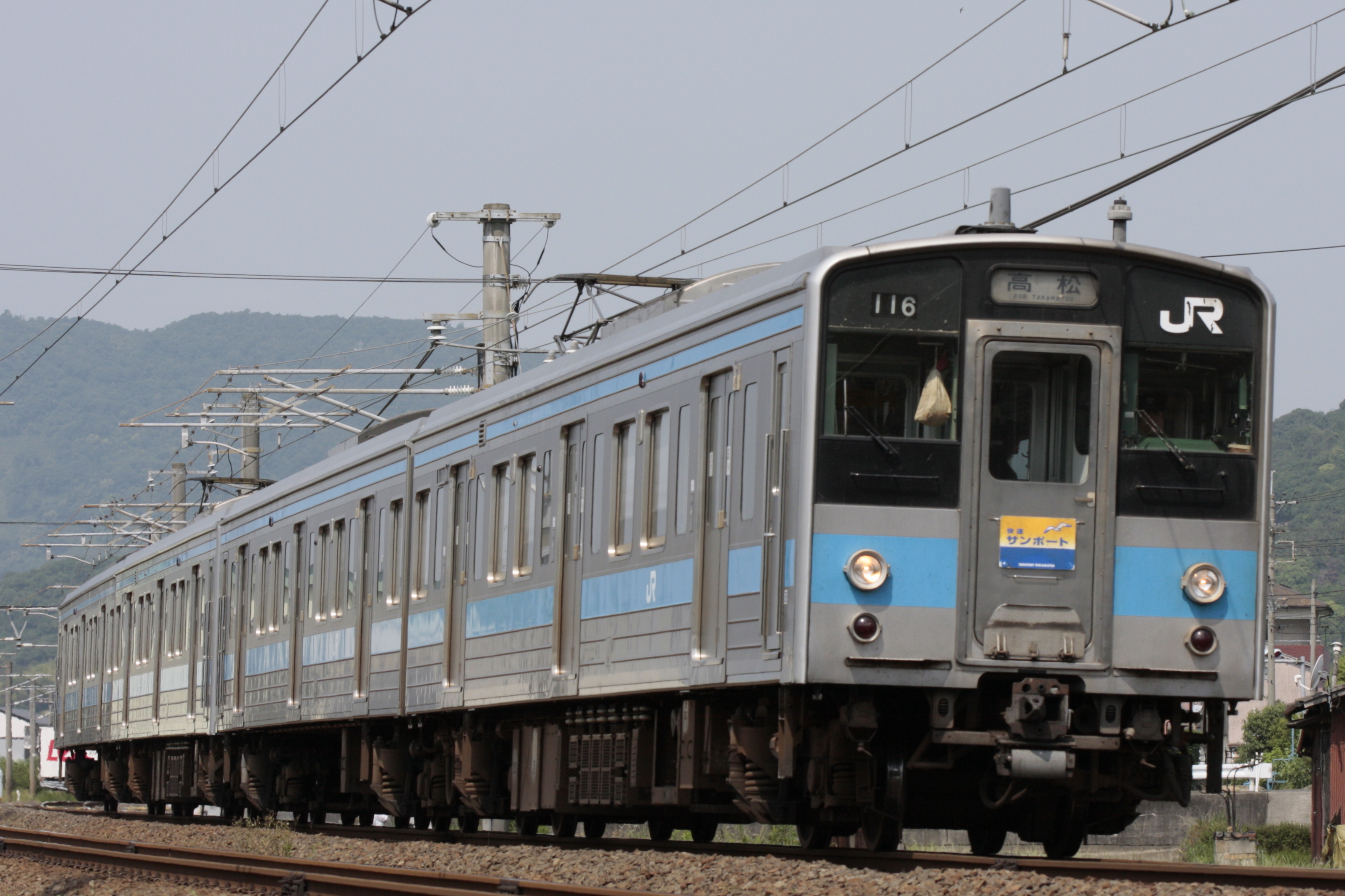 Two JR Shikoku 121 series 2-car EMU sets on a Sunport rapid service